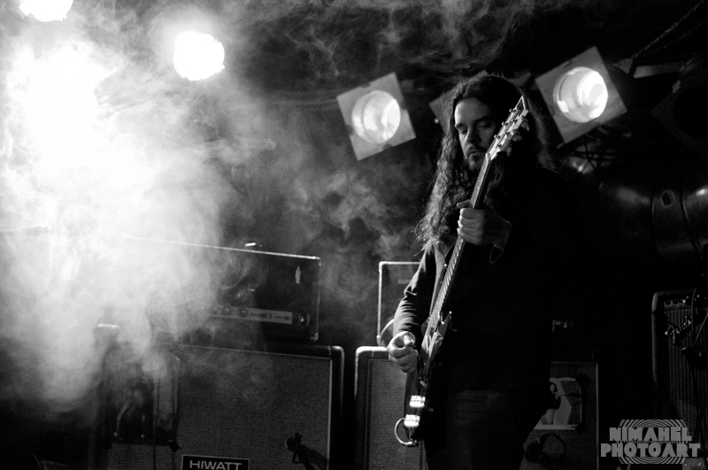 Aethenor + Lloyd Turner (band) Init CLub, Rome 15.12.2010 Aethenor are: Stephen O'Malley (guitar) Steve Noble (drums) Daniel O'Sullivan (keyboard, synth) Lloyd Turner (band) are: Donato Loia (guitar) Paolo Tornitore (keyboard) Lorenzo Stecconi (bass, effects)